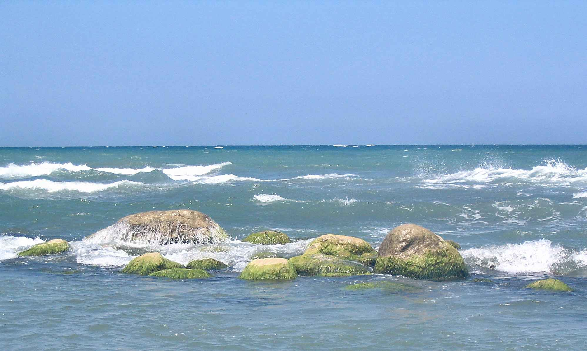 Caspian Sea, Noor, Mazandaran, Northern Iran